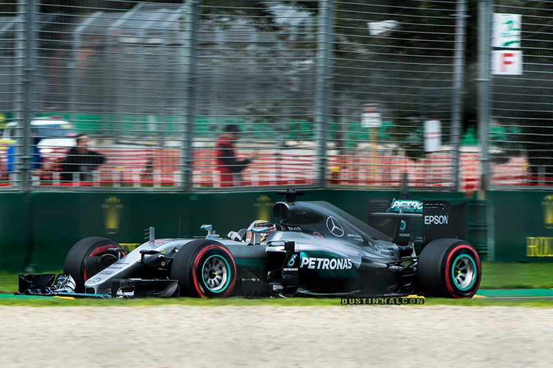 Lewis Hamilton at the 2016 Australian Grand Prix